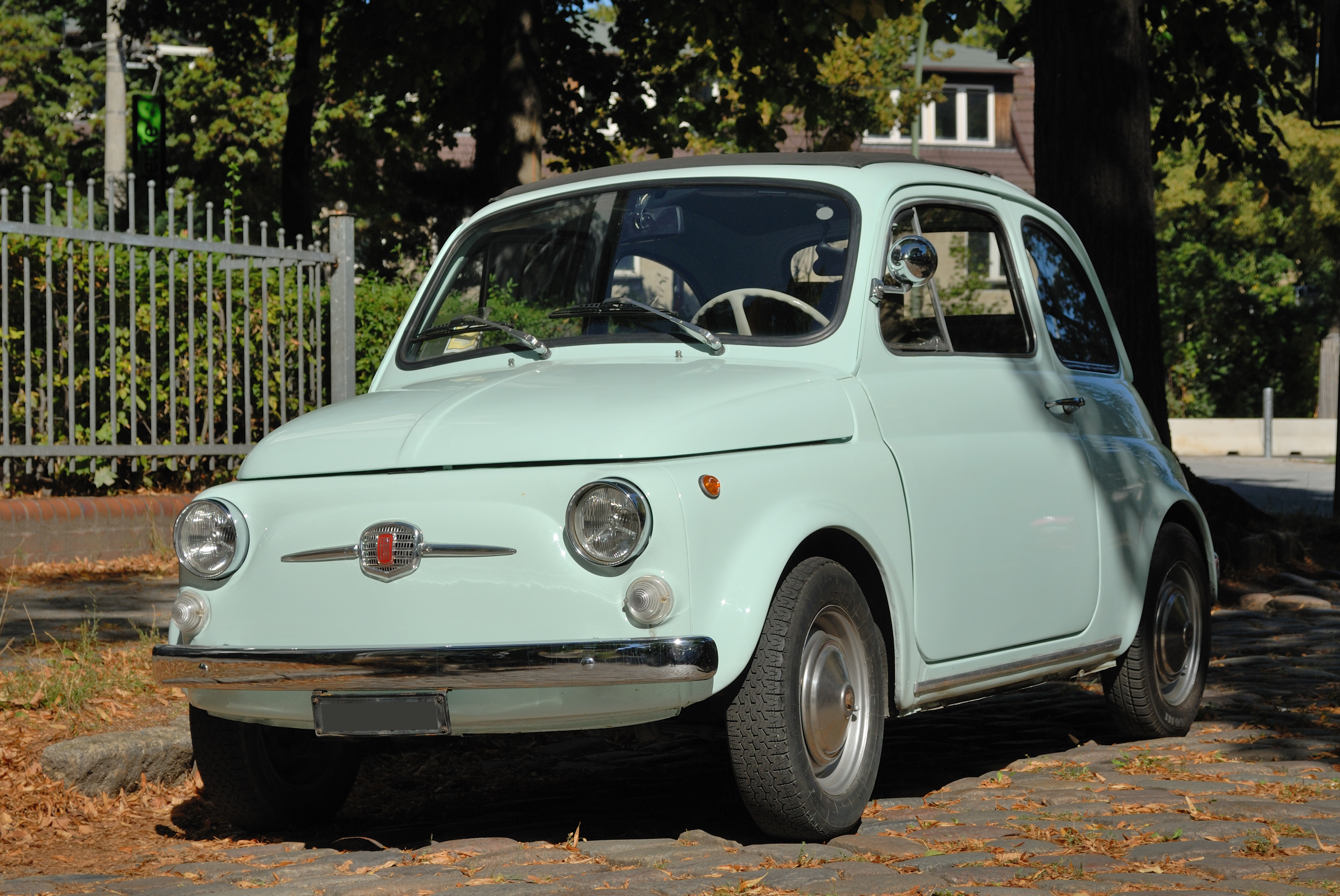 Fiat 500 F Berlina seen in Berlin.